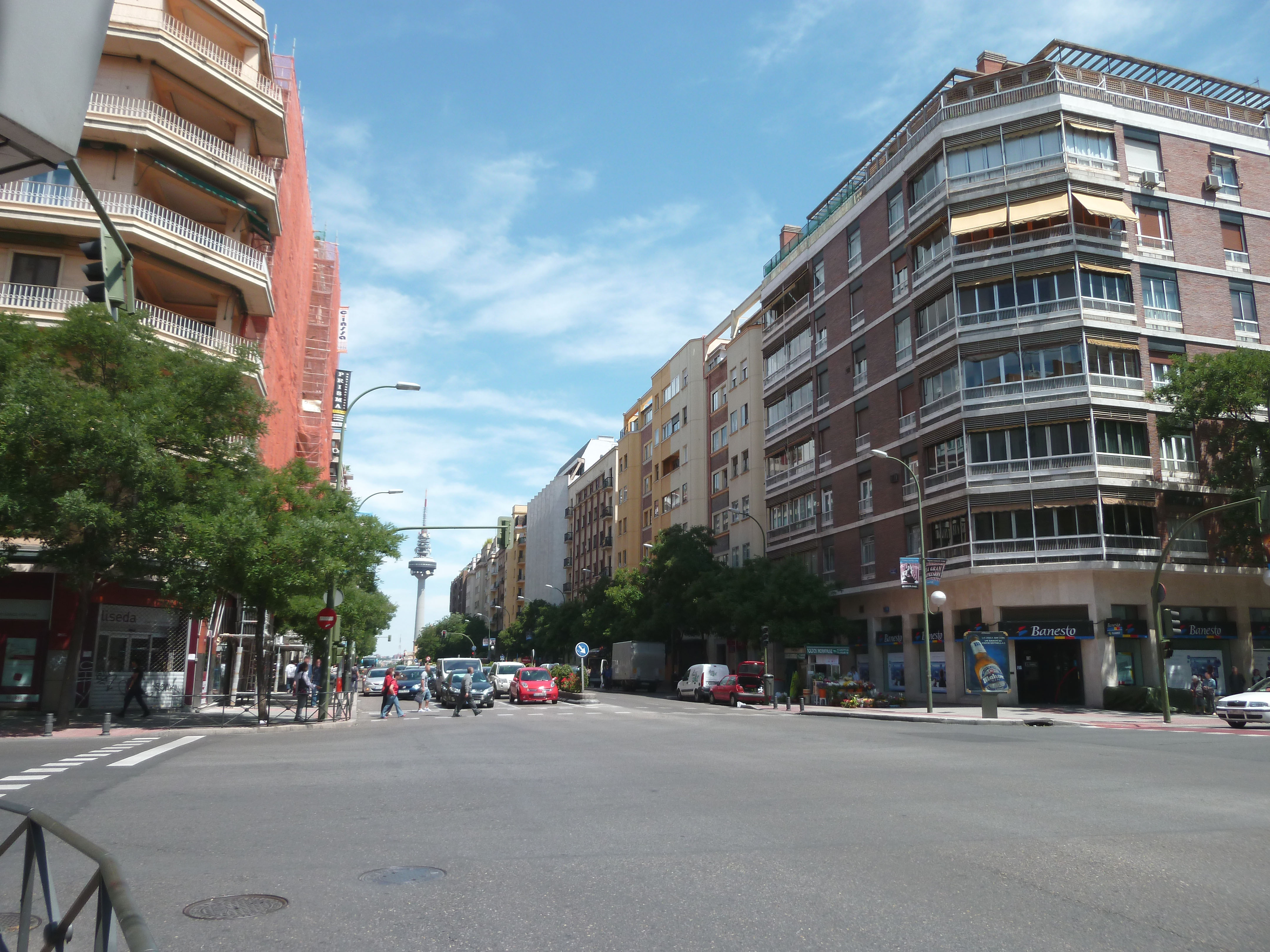 View of Calle de O'Donnell ("O'Donnell Street") in Madrid (Spain).